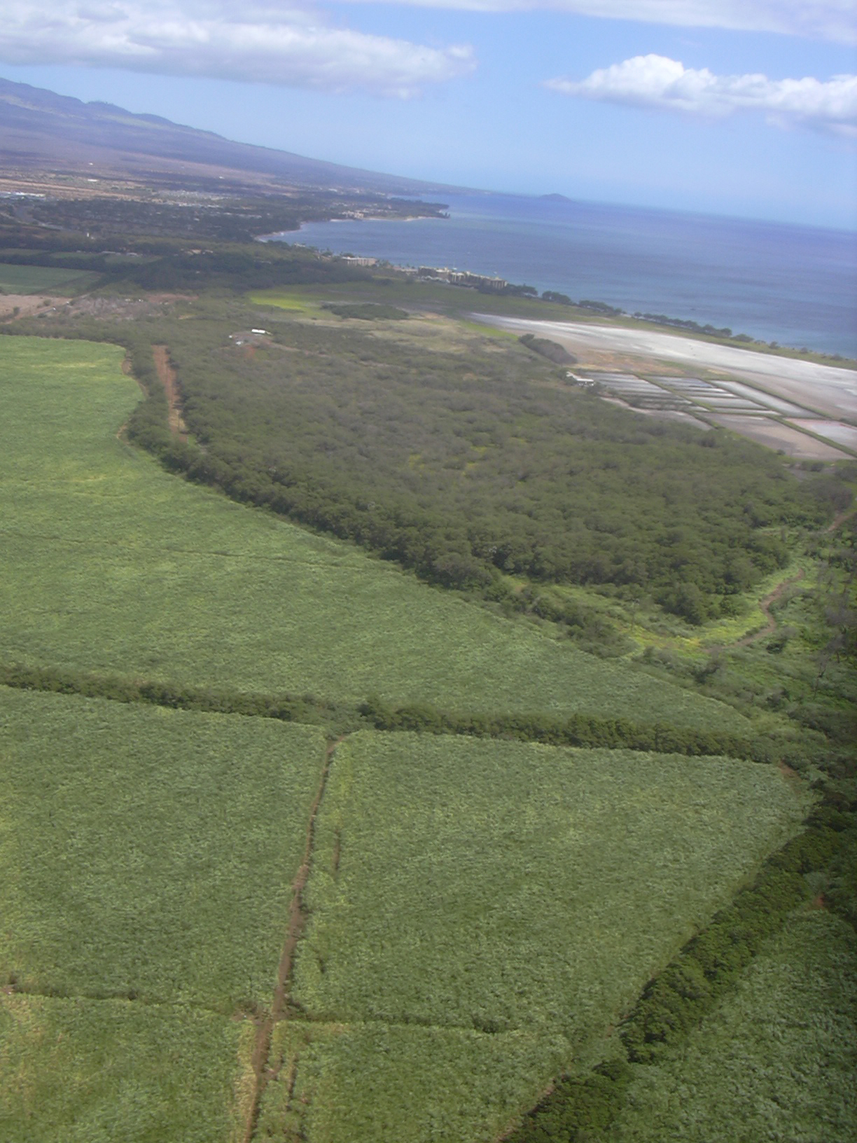 Macaranga tanarius (aerial view). Location: Maui, Kealia